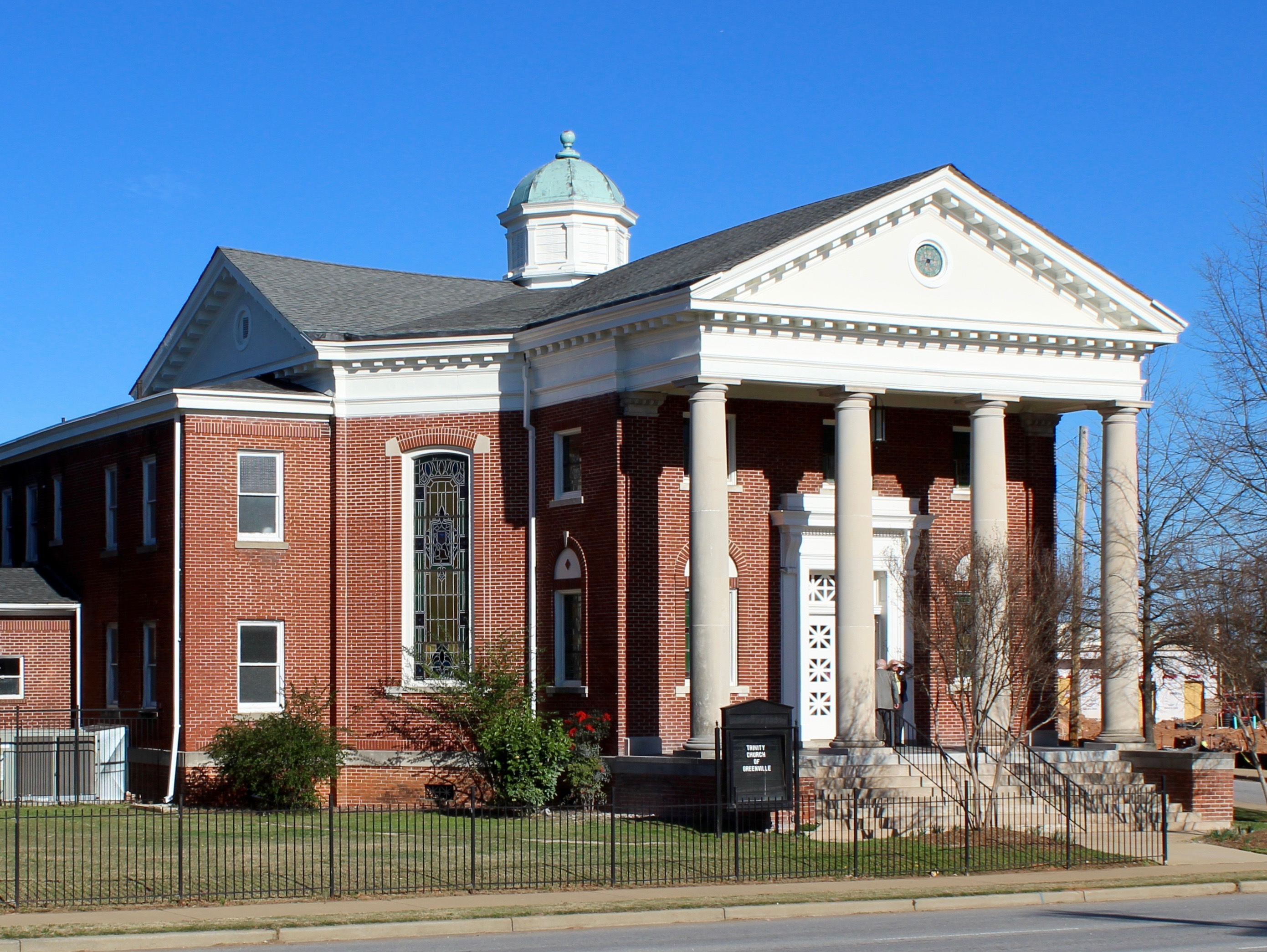 A historic (1916-20) church in Greenville, South Carolina, USA, restored by Trinity Church of Greenville; winner of a State Preservation Honor Award in 2016